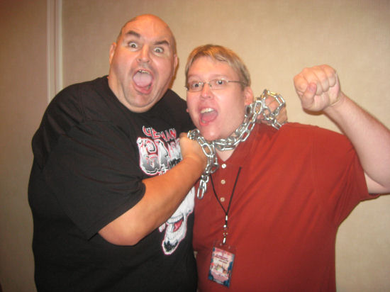 George Gray aka The One Man Gang with myself.